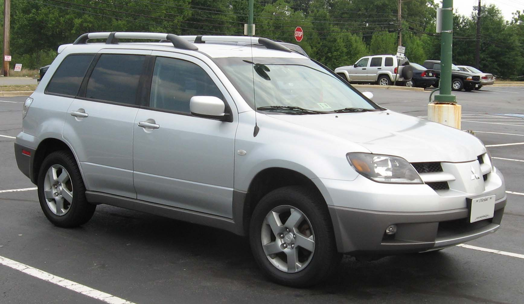 2003-2005 Mitsubishi Outlander photographed in USA.